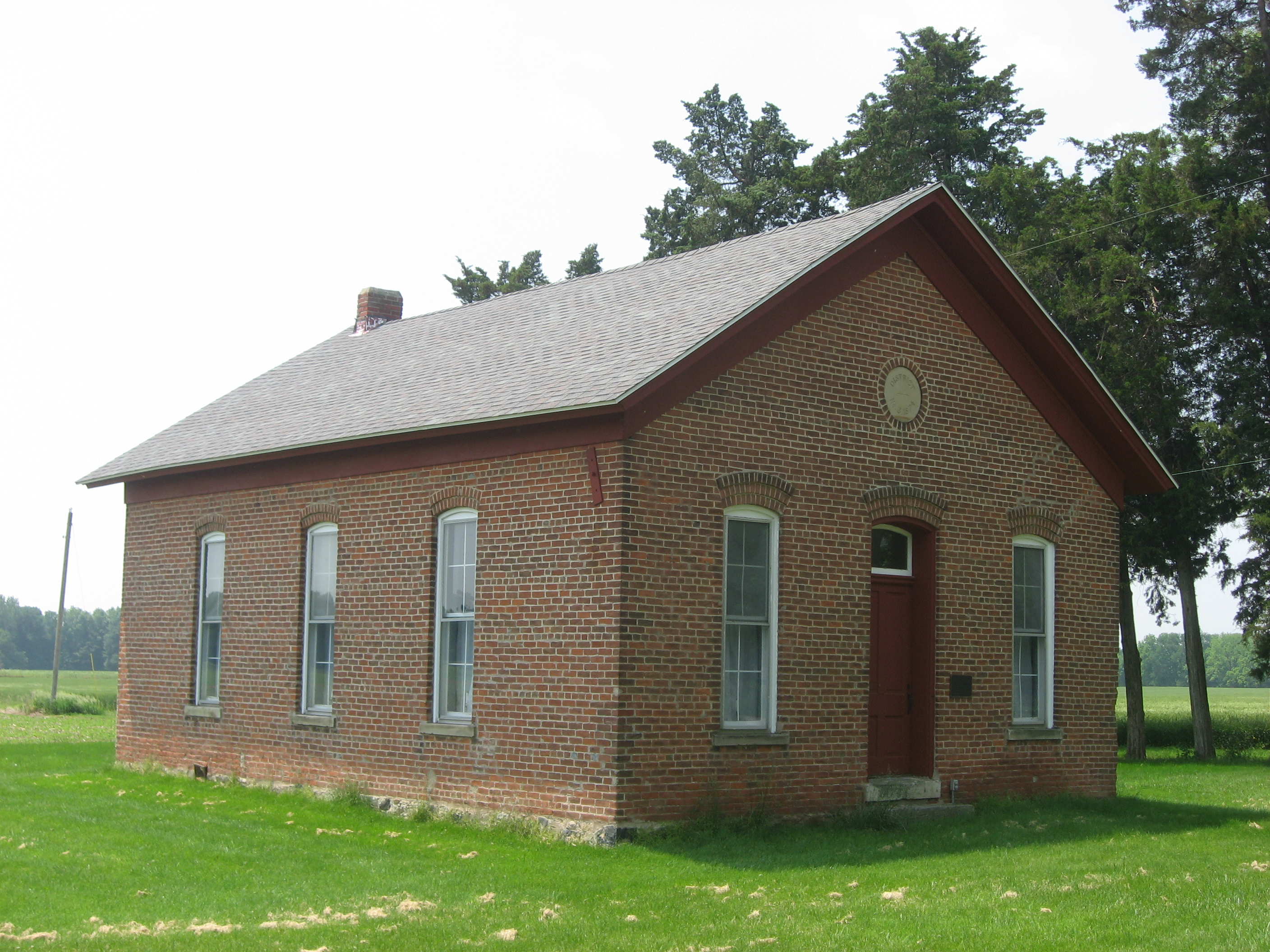 Front and eastern side of the District School No. 3, located on the southeastern corner of the junction of County Roads 750N and 100W northeast of Rockfield in Rock Creek Township, Carroll County, Indiana, United States. Built in 1874, it is listed on the National Register of Historic Places.